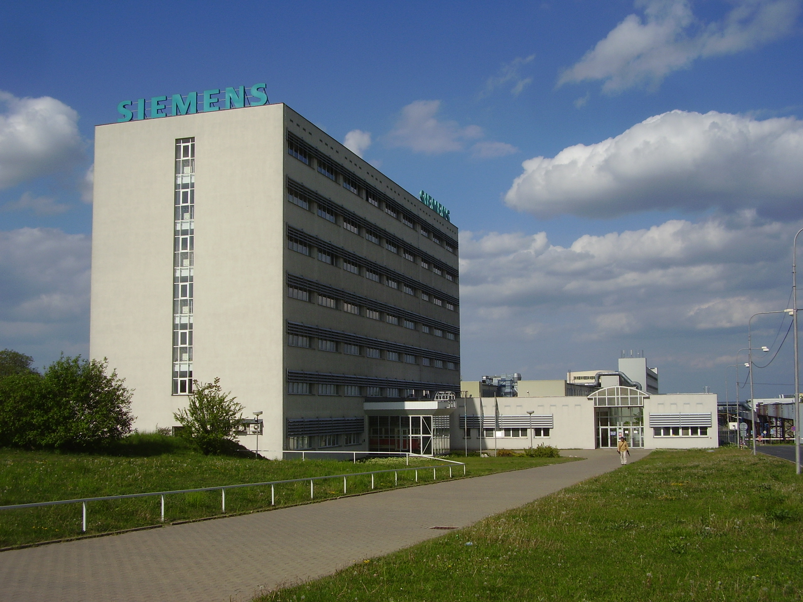 Siemens kolejová vozidla Zličín, Prague-Třebonice